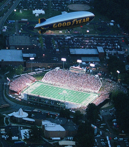 The Spirit Of Akron blimp hangs over the Football Hall Of Fame game in Canton Ohio, on August 9, 1999. This was the first pre-season game of the new Cleveland Browns football, in a game against the Dallas Cowboys. The first game of the regular season for the Cleveland Browns will be on Sunday September 12 in Cleveland, in the new Cleveland Browns Stadium in downtown Cleveland, Ohio, against the Pittsburgh Steelers. This will be the first regular season game played in the city since December 17, 1995.(Photo/Paul M. Walsh)